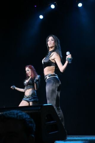 Carmit Bachar (left) and Nicole Scherzinger (middle) at the Tacoma Dome in Washington.